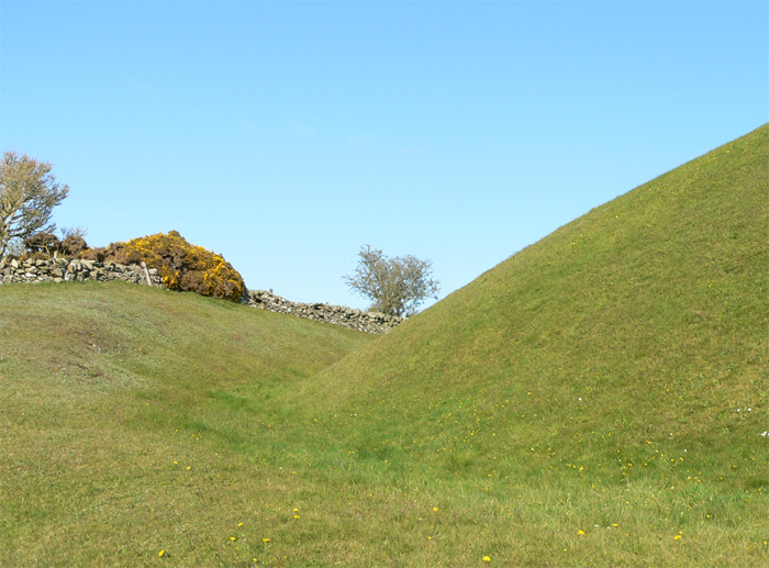 Druchtag Motte, Dumfries and Galloways, Scotland - ditch